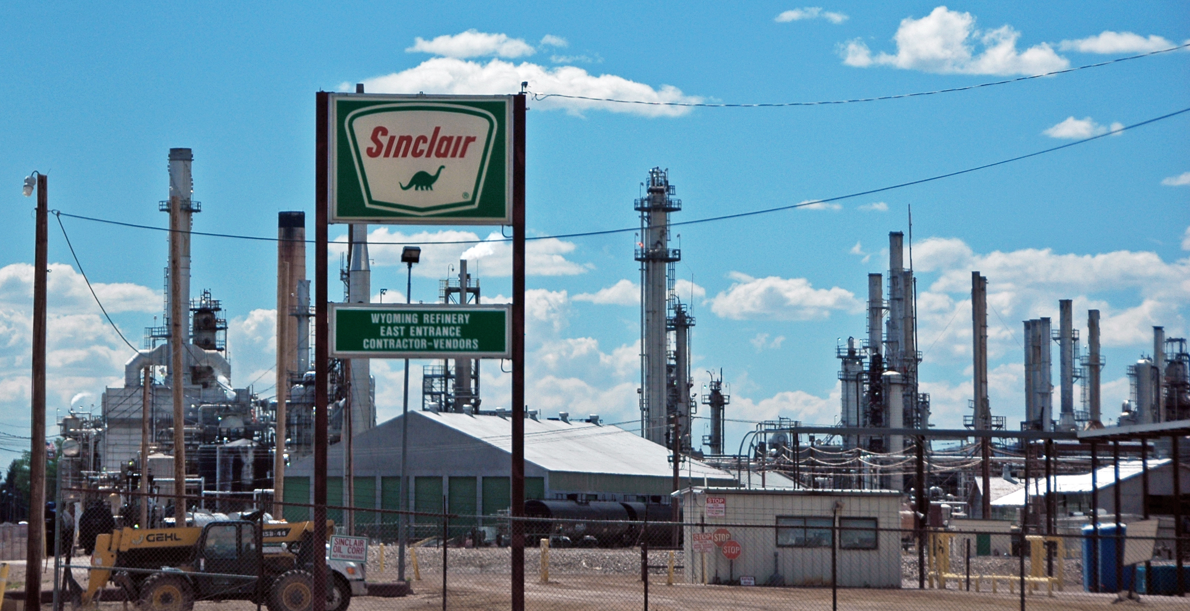 Petroleum is the # 1 most important energy source in modern civilization. Without it, society stops. Petroleum means "rock oil" and refers to naturally-occurring, rock-derived hydrocarbons in either fluid form (crude oil) or gaseous form (natural gas). Crude oil needs to be processed into various products that are useful in society. This includes diesel fuel, ordinary gasoline, tar for asphalt, and chemicals for making everything from medicine to plastic. Crude oil processing is fairly complex and takes place at oil refineries. Seen here is the Sinclair Refinery in Wyoming. Locality: Sinclair Refinery, northern side of Interstate 80 at the town of Sinclair, west-central Carbon County, southern Wyoming, USA